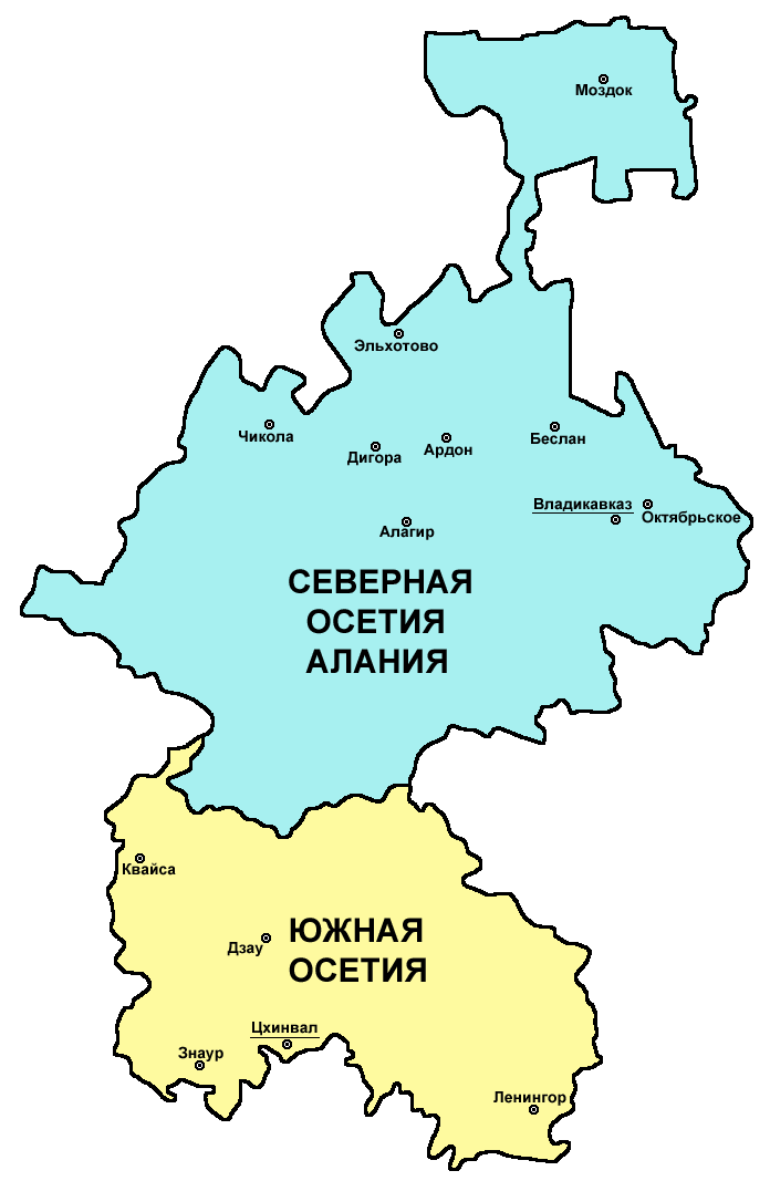 Map of Ossetia (North Ossetia and South Ossetia) - Russian language version.